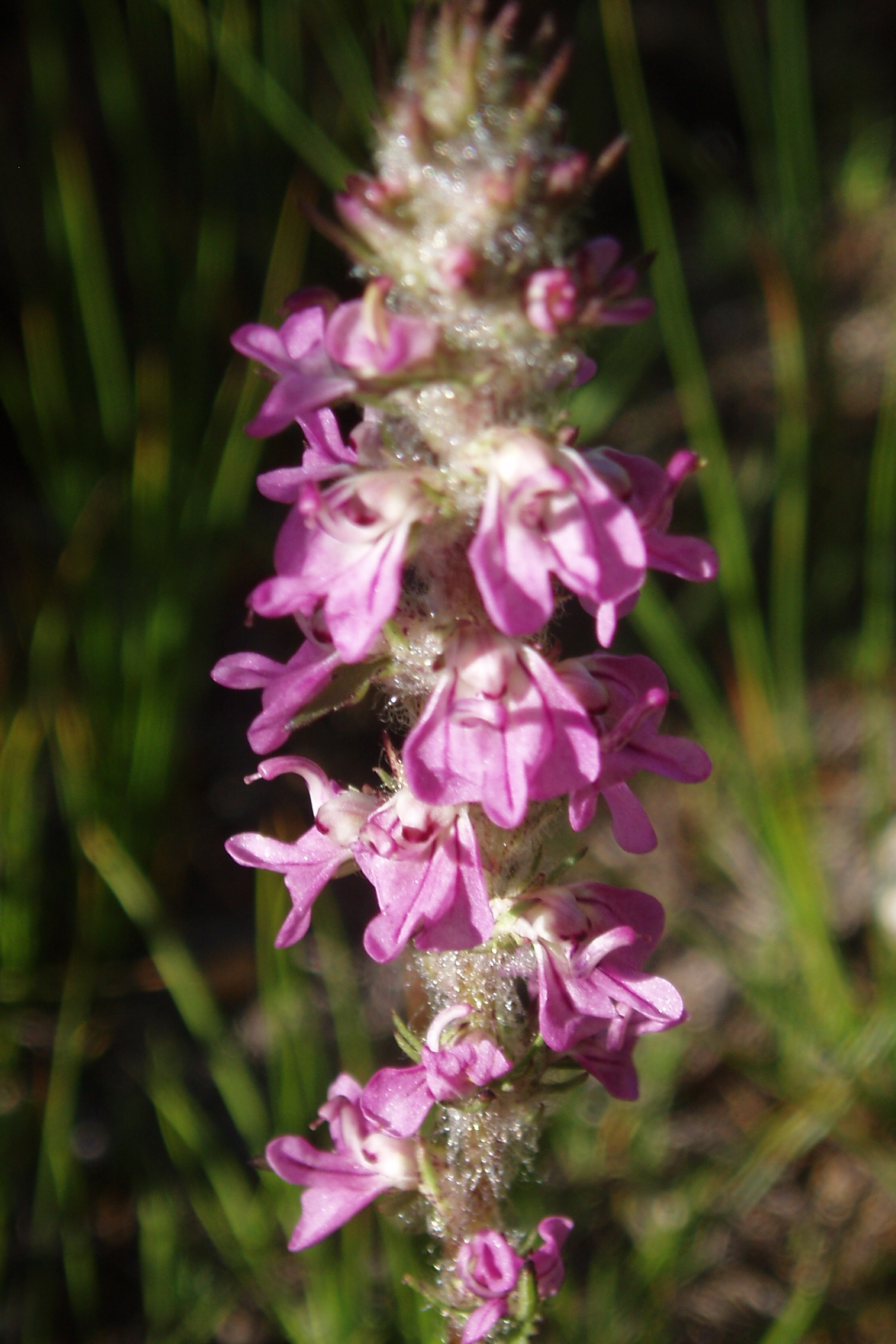 Pedicularis attolens on the ridge east of Post Corral Canyon in Emigrant Wilderness, California, USA.